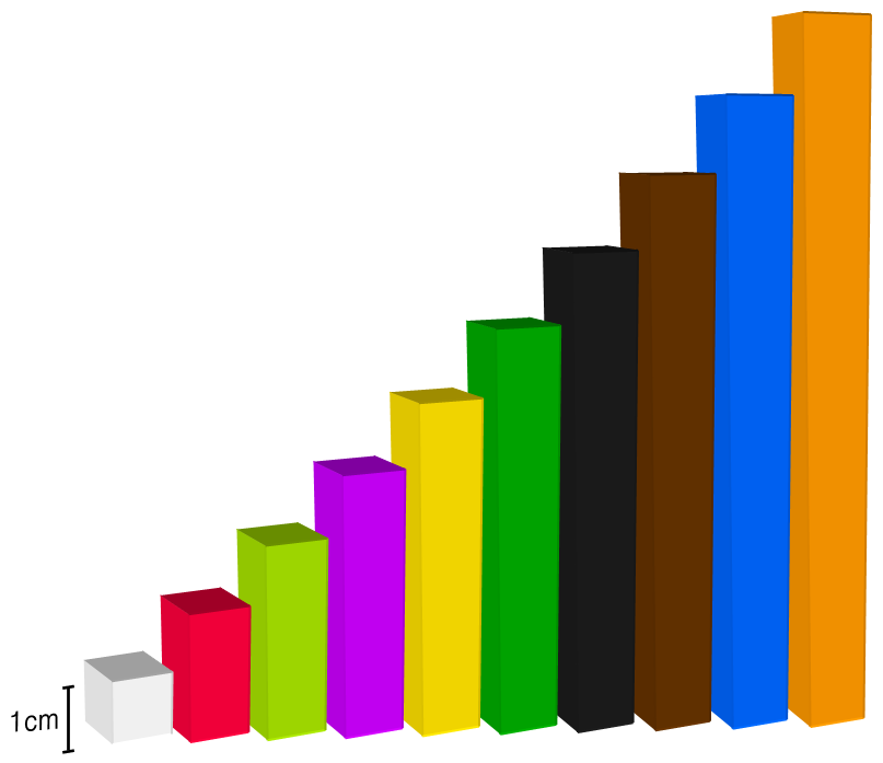 A picture of some Cuisenaire rods for the article.